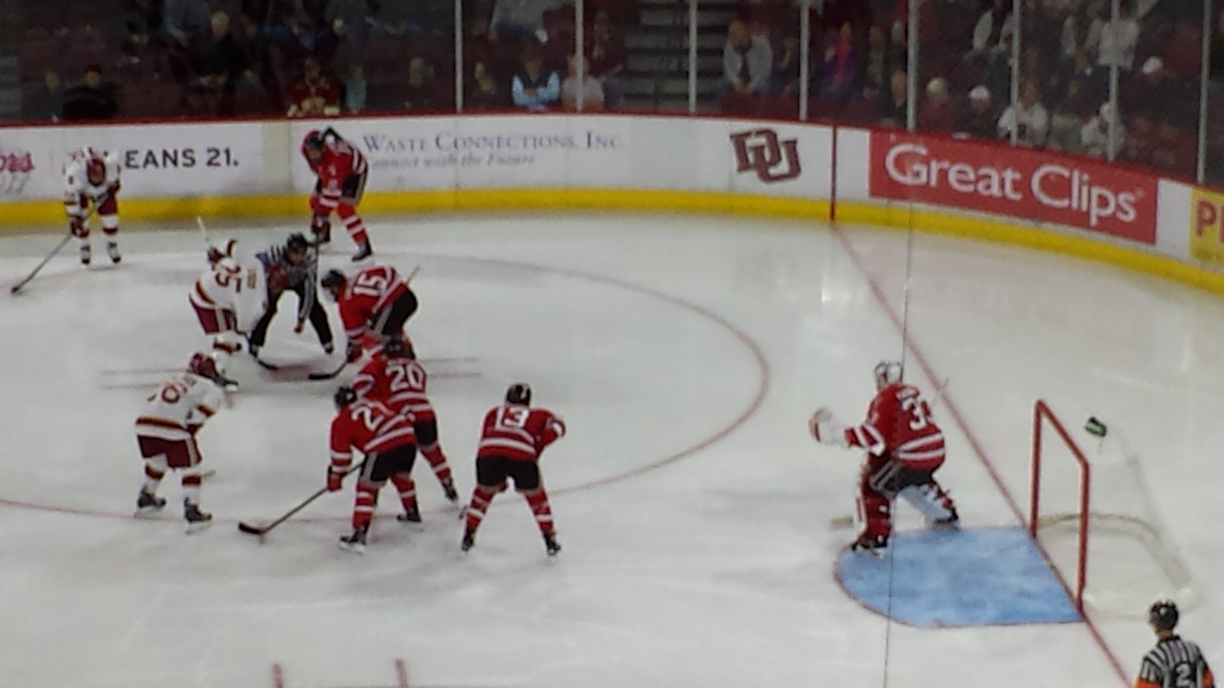 University of Denver (in white) men's ice hockey vs Rensselaer Polytechnic Institute (in red), Magness Arena, Denver, Colorado, USA. UD won 3-0 in this regular season opener.